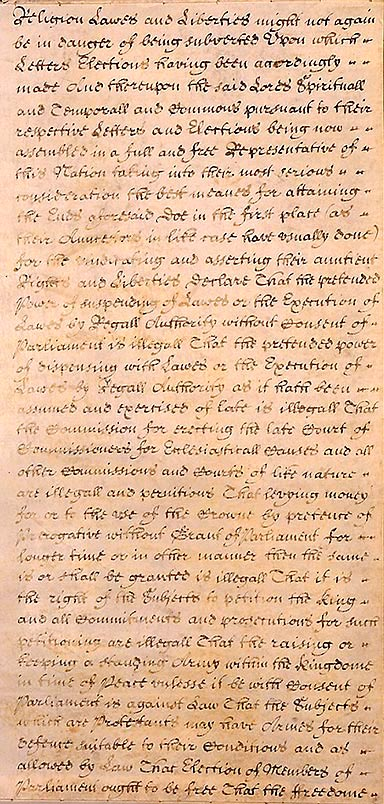 This is a closeup of the middle portion of the English Bill of Rights of 1689.